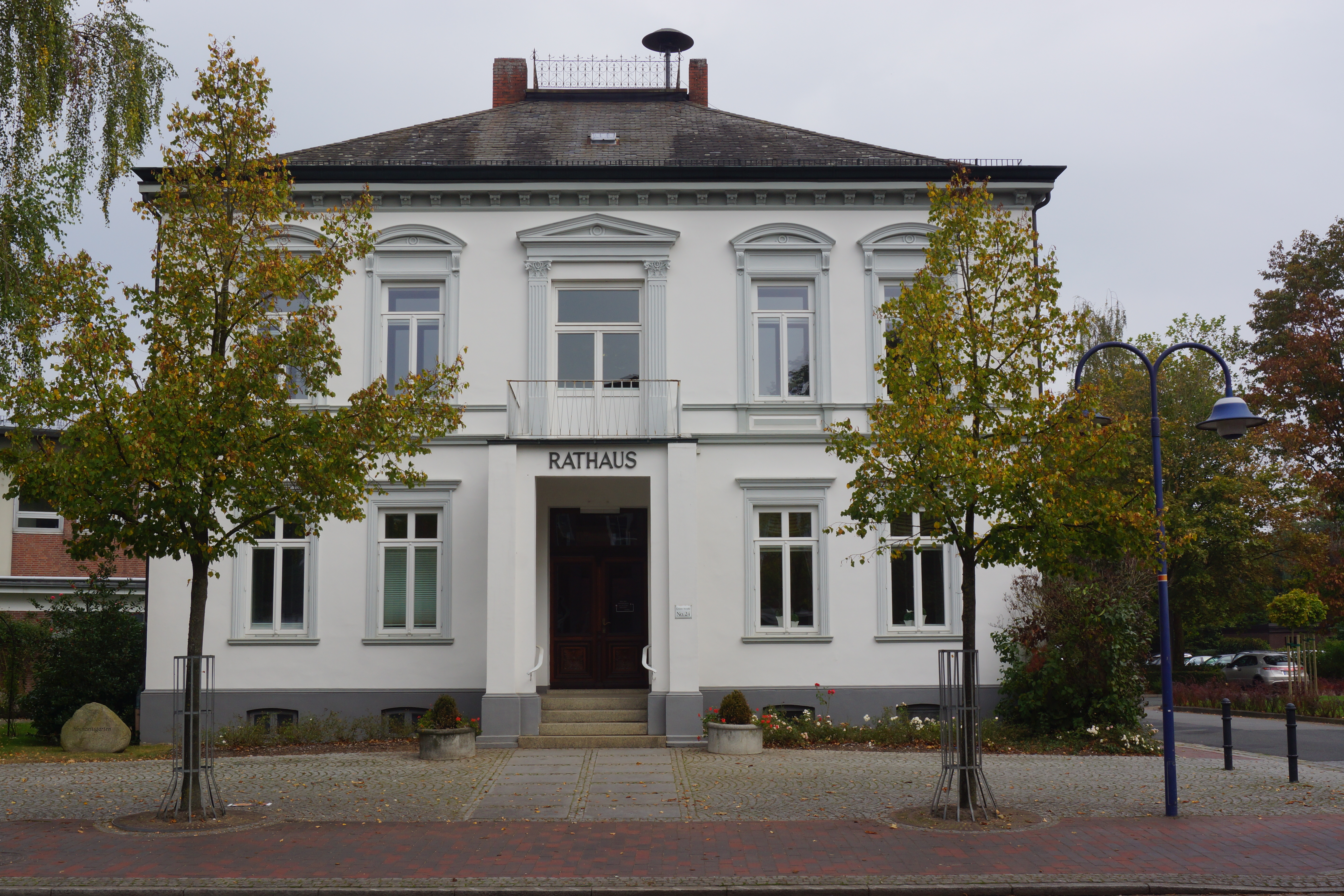 Ottersberg, Germany: Town hall